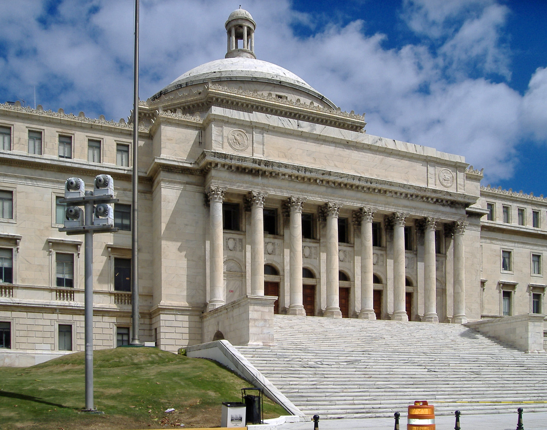 South side view of the Puerto Rico State Legislature in San Juan, Puerto Rico.